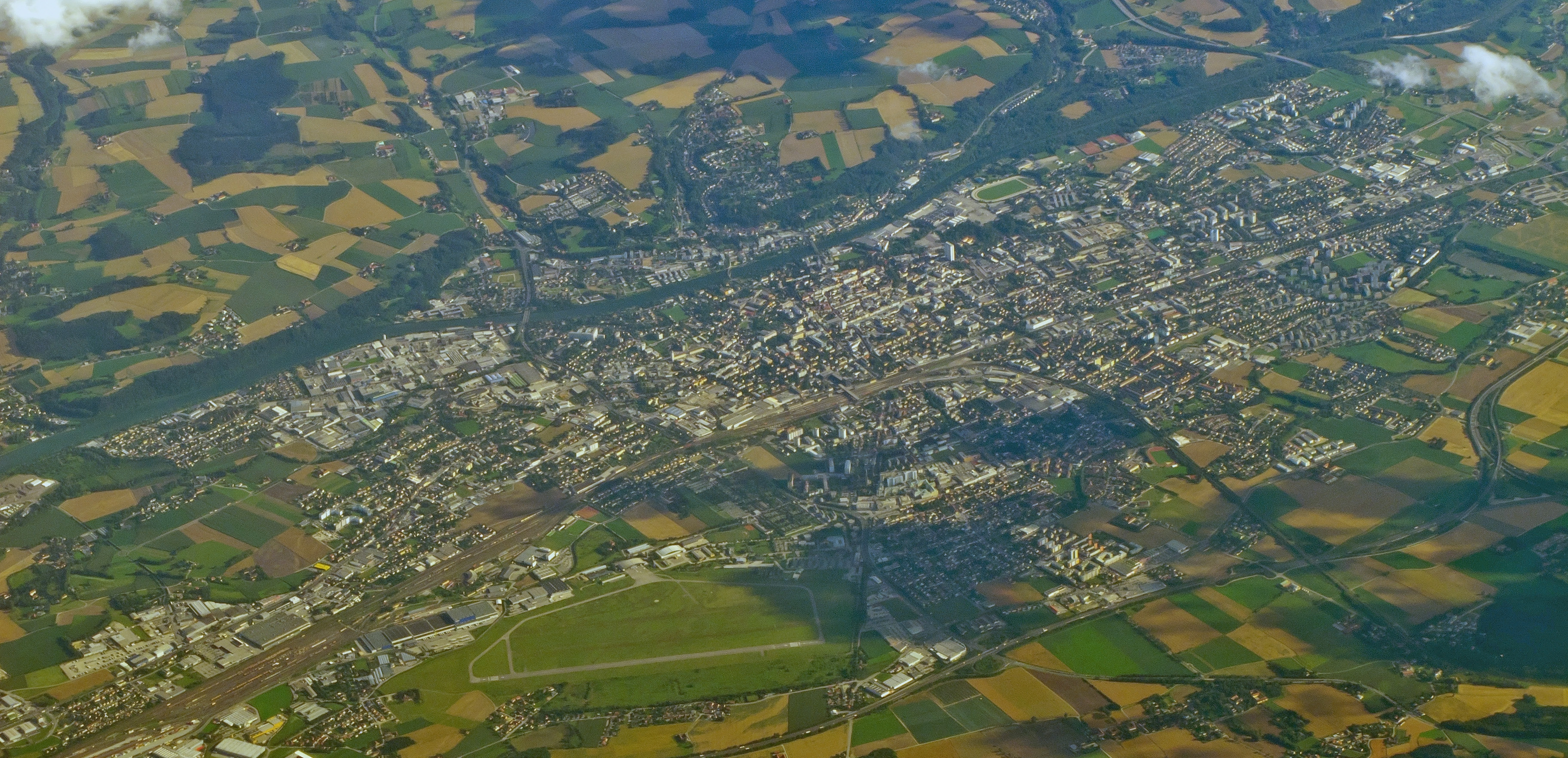 Aerial photograph of Wels, Austria.